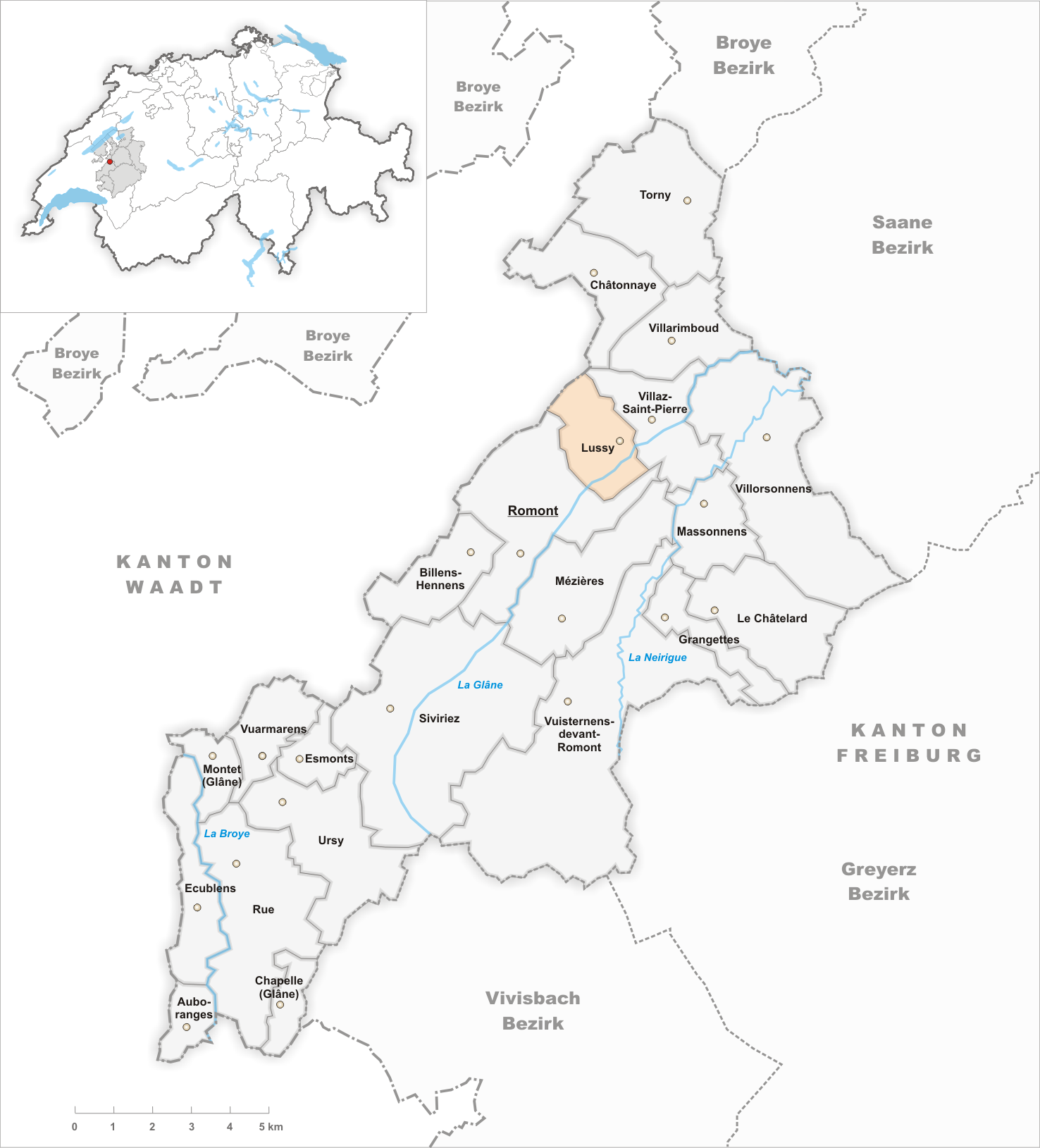 Municipality Lussy Artist: Tschubby